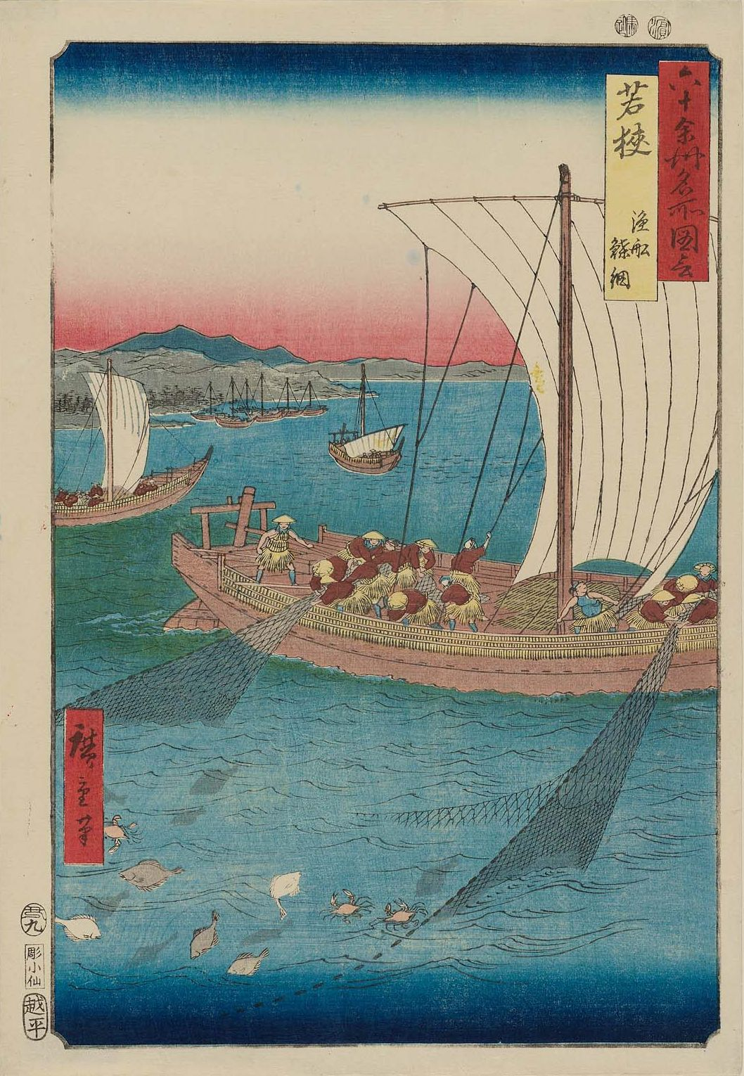 Part of the series Famous Places in the Sixty-odd Provinces, No. 30 (Hokurikudō group)